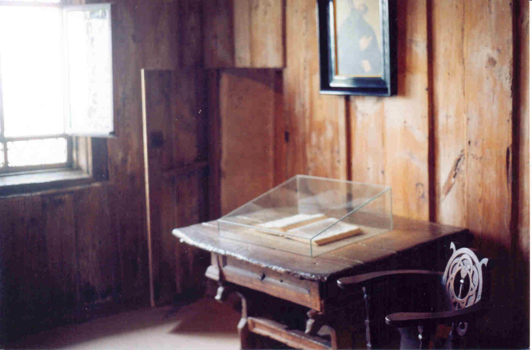 Description: The Luther Room in Wartburg castle, Eisenach, Thuringia, Germany Source: My personal property Date: June, 2003 Author: Dick107